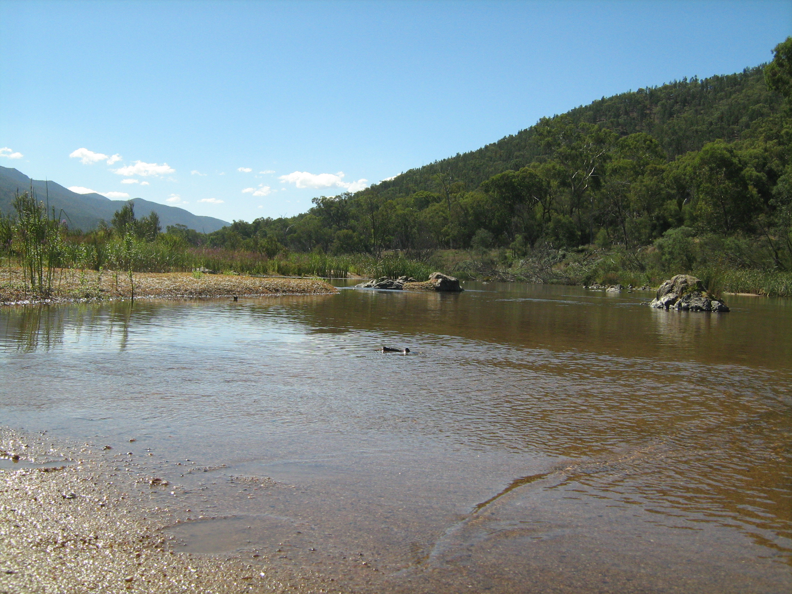 The Snowy River just south of the New South Wales / Victoria border near the locale of Suggan Buggan.